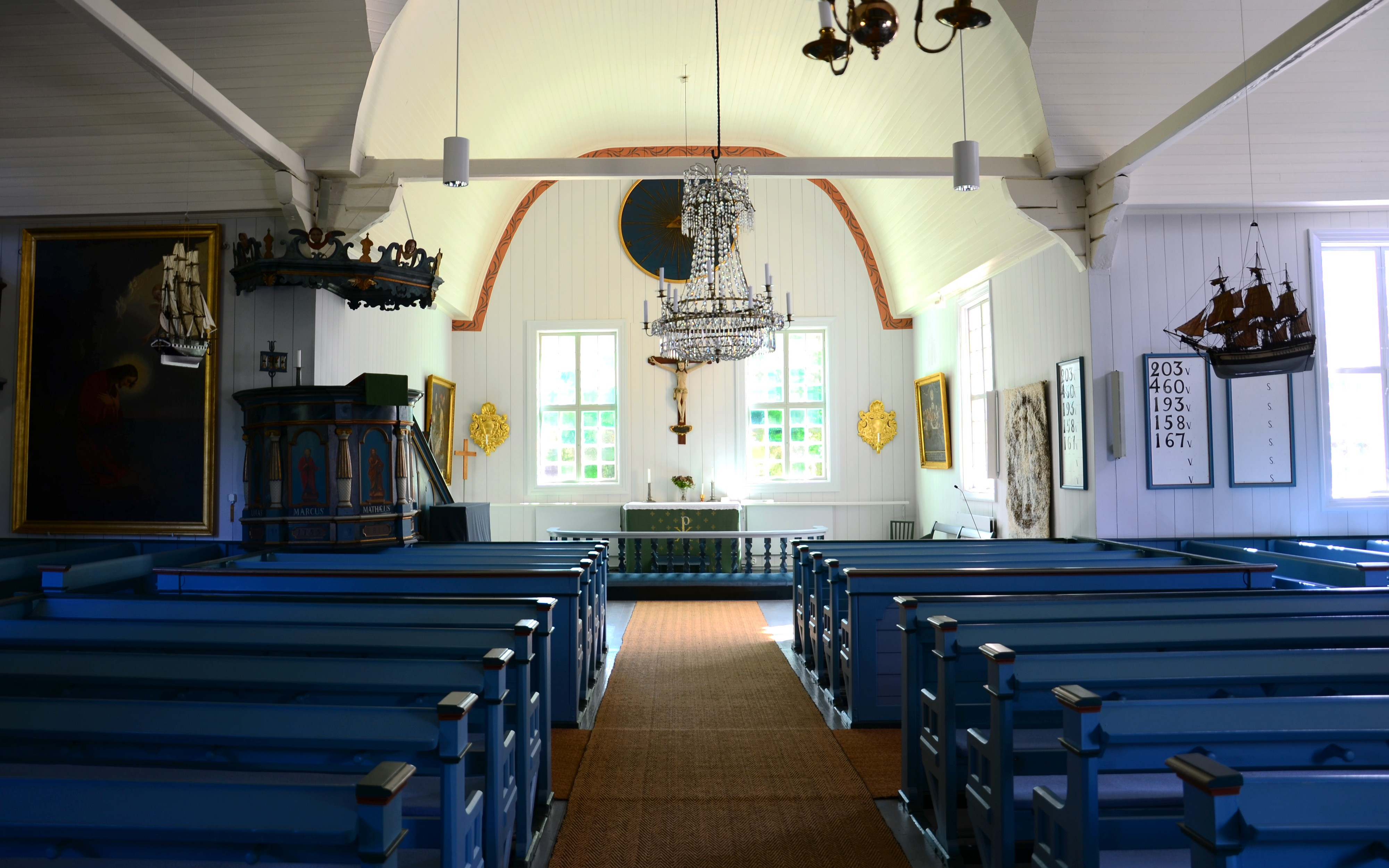 Church of Dragsfjärd in Kimito (Kemiö)